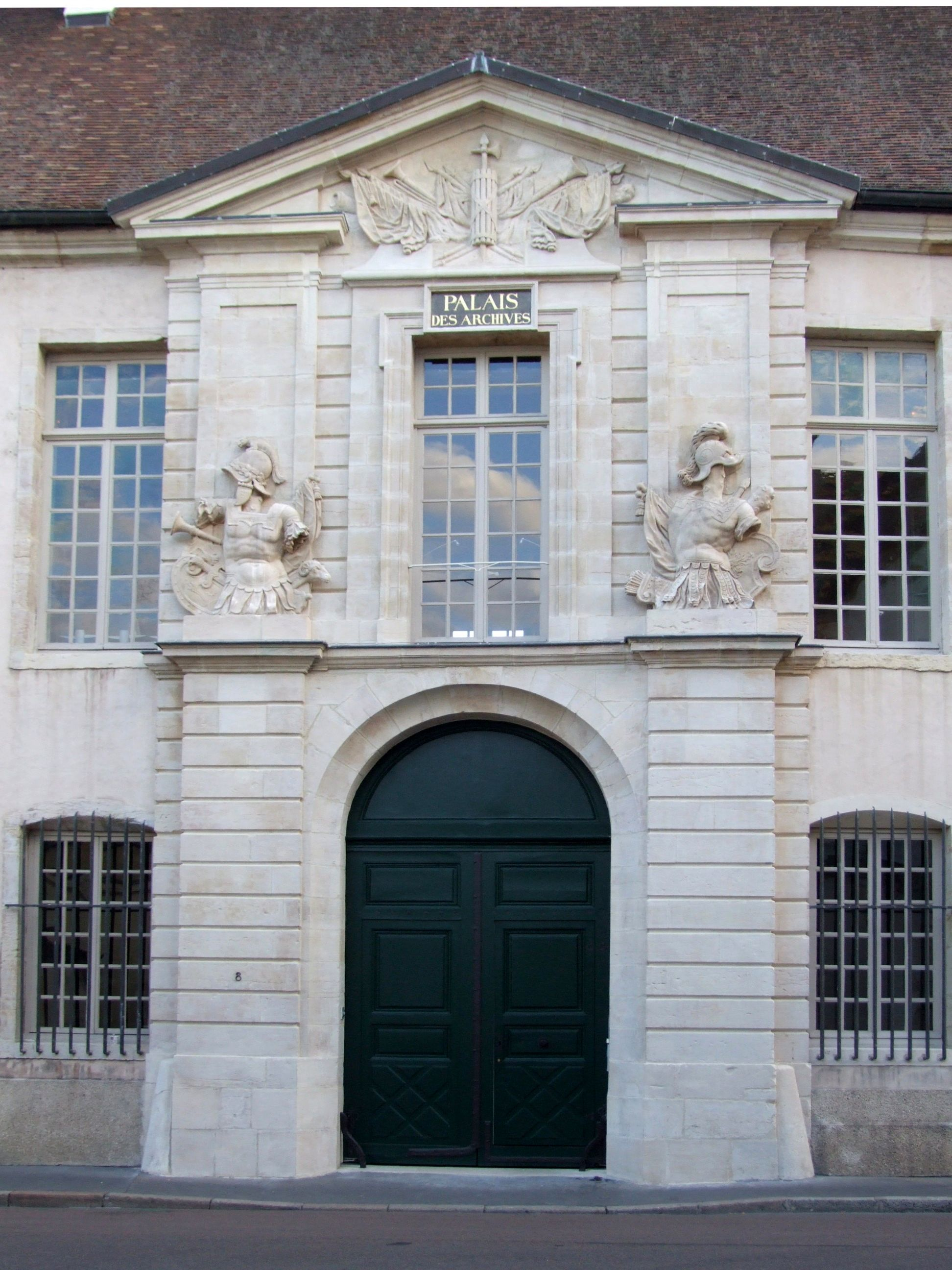 Dijon, Burgundy, France